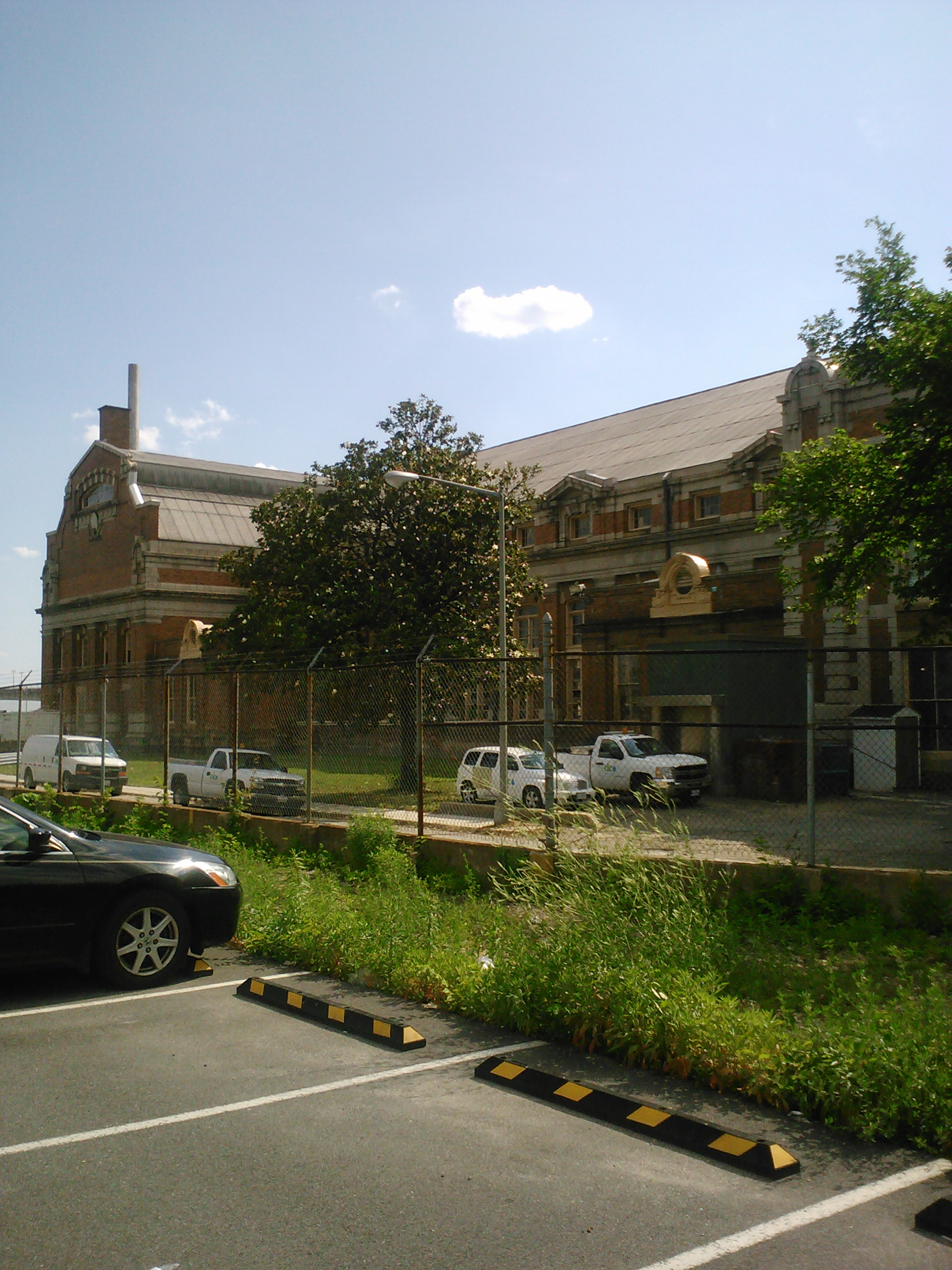 This is an image of the East side of the Main Sewerage Pumping Station located in the SE quadrant of Washington, D.C. It was formerly a part of the Washington Navy Yard and is listed on the NRHP list of historic places.